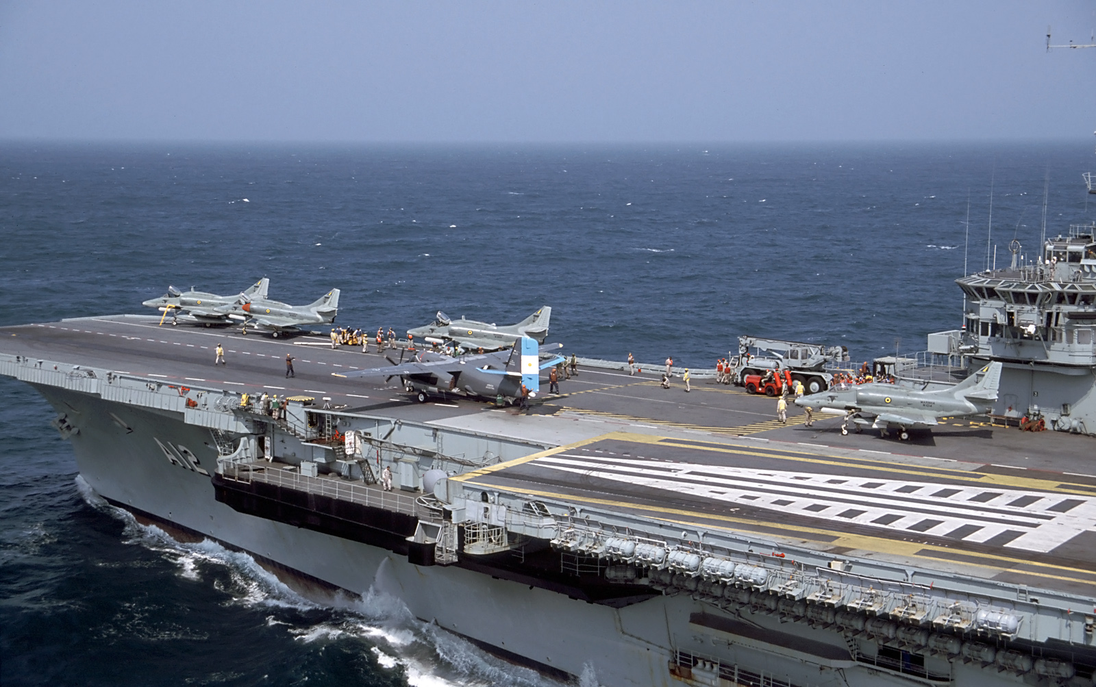 Prepairing the launch of an Argentinian S-2 Tracker